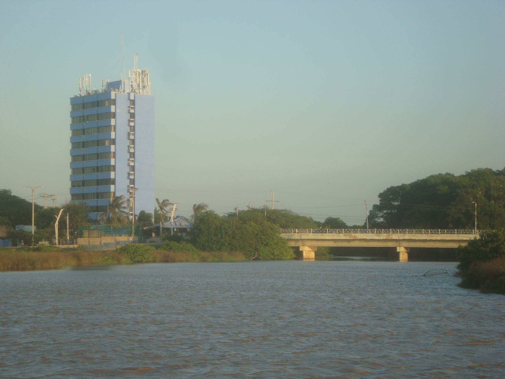 It shows the Ranchería river mouth. The river empties into the city of Riohacha